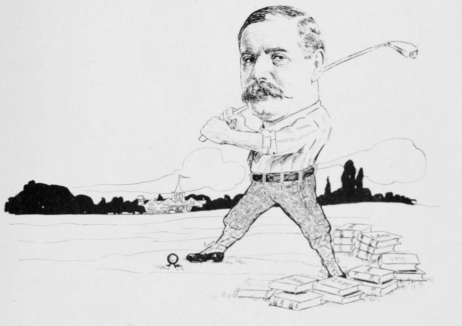 This is a caricature of Tirey L. Ford from .